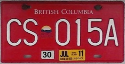 British Columbia vehicle registration plate for diplomatic consulars